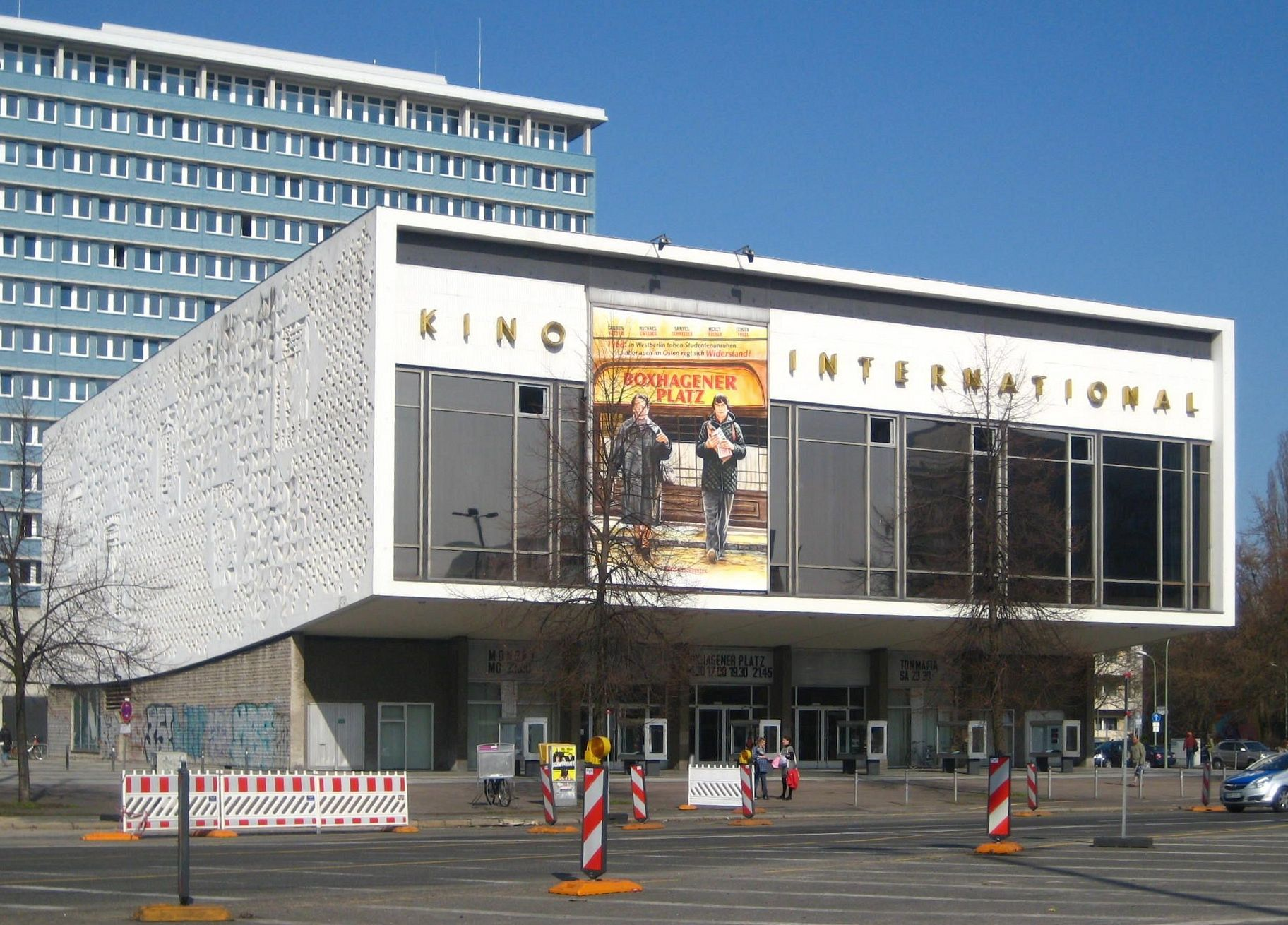 The Kino International (Cinema International) at Karl-Marx-Allee No. 33 in Berlin-Mitte. It was built from 1961 to 1963 to a design by the architect Josef Kaiser. The building has been designated as a historic landmark.